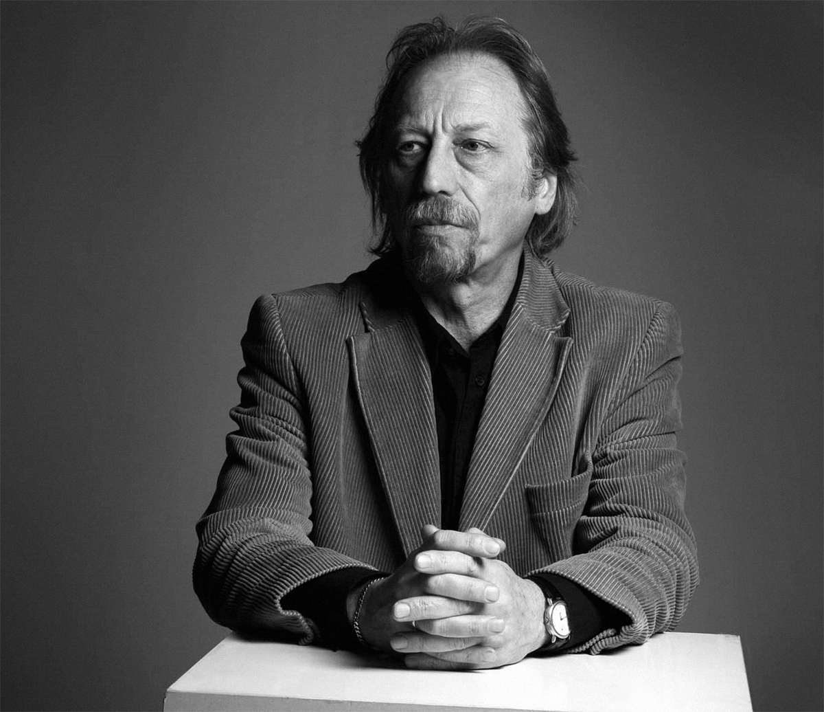 Vladislav Bajac, Serbian author, translator and publisher